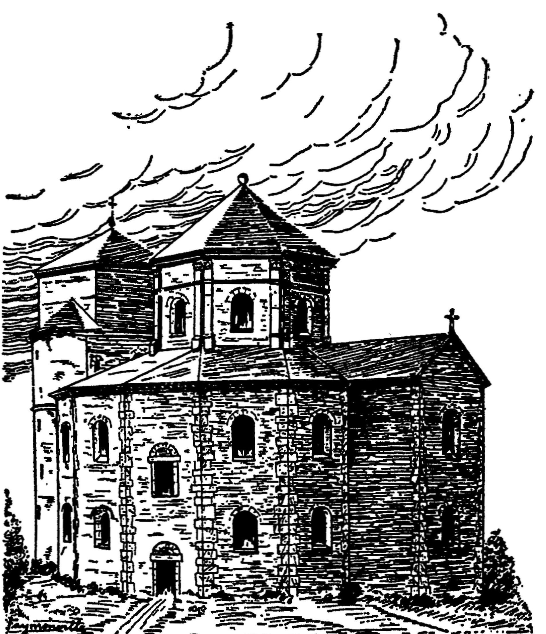 Charlemagne's church in Aachen